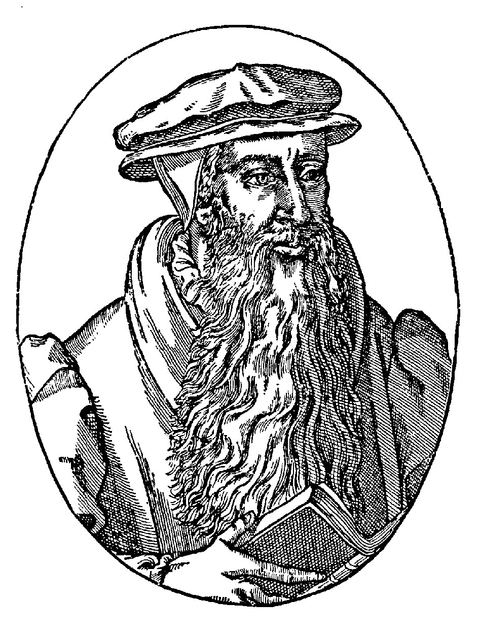 Facsimile of the engraving in Beza's 'Icones', reproduced in James Grant, Old And New Edinburgh, 1880